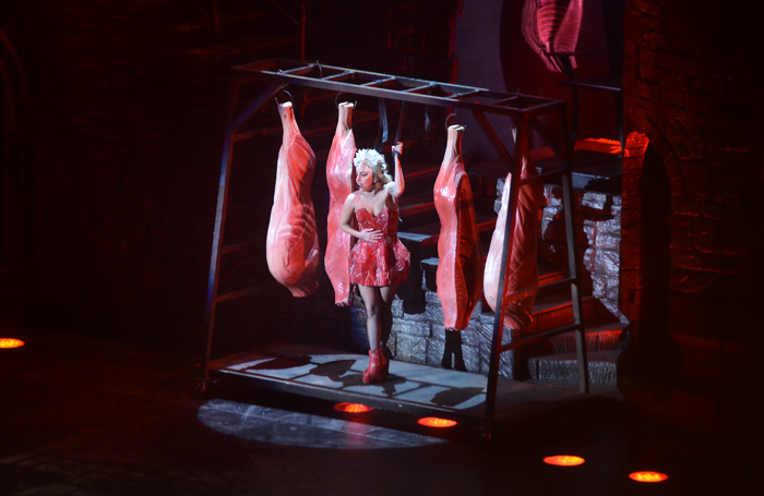 Lady Gaga performing "Americano" on The Born This way Ball Tour in Helsinki.